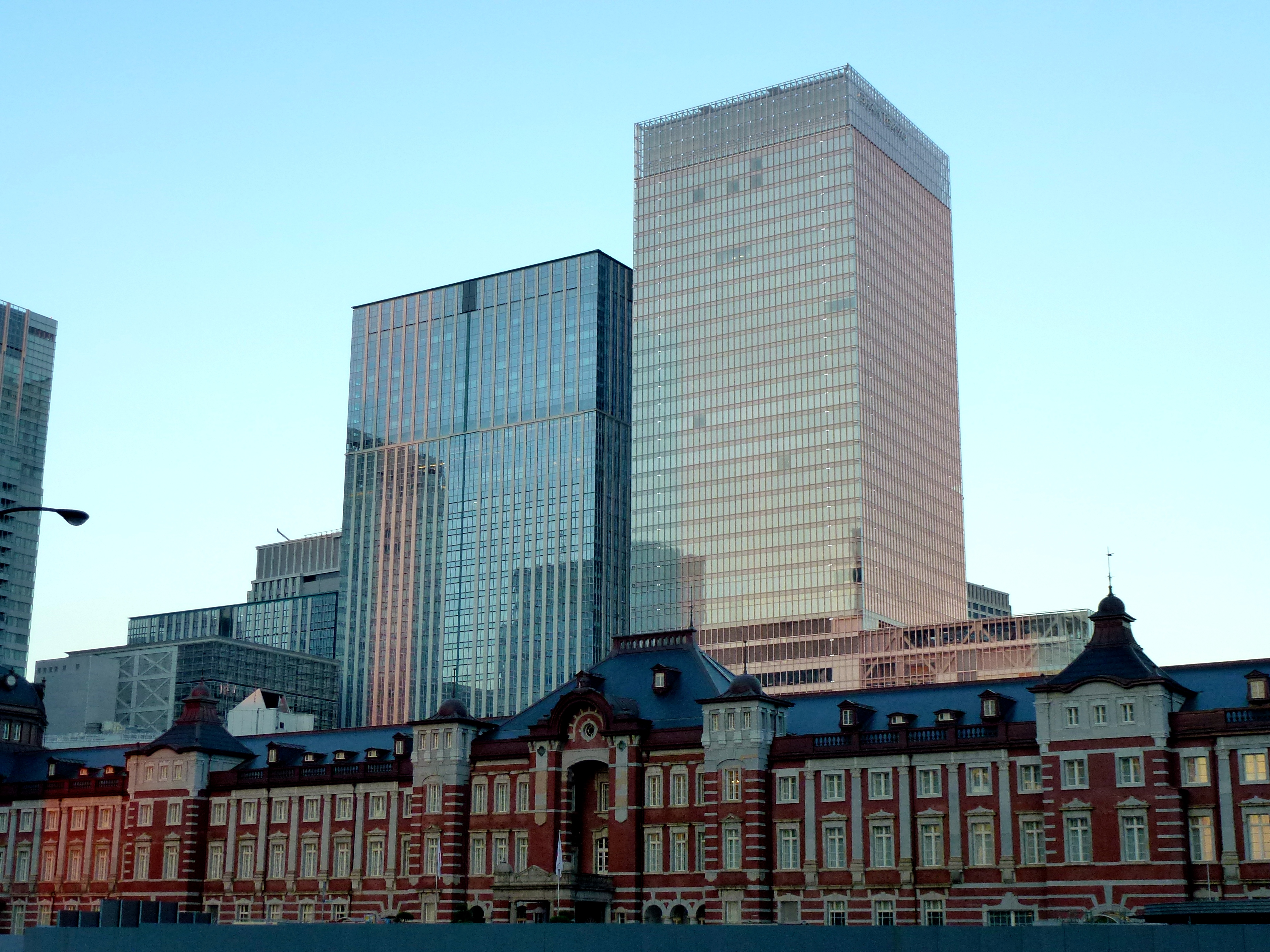 Tokyo Station, Tokyo, Japan